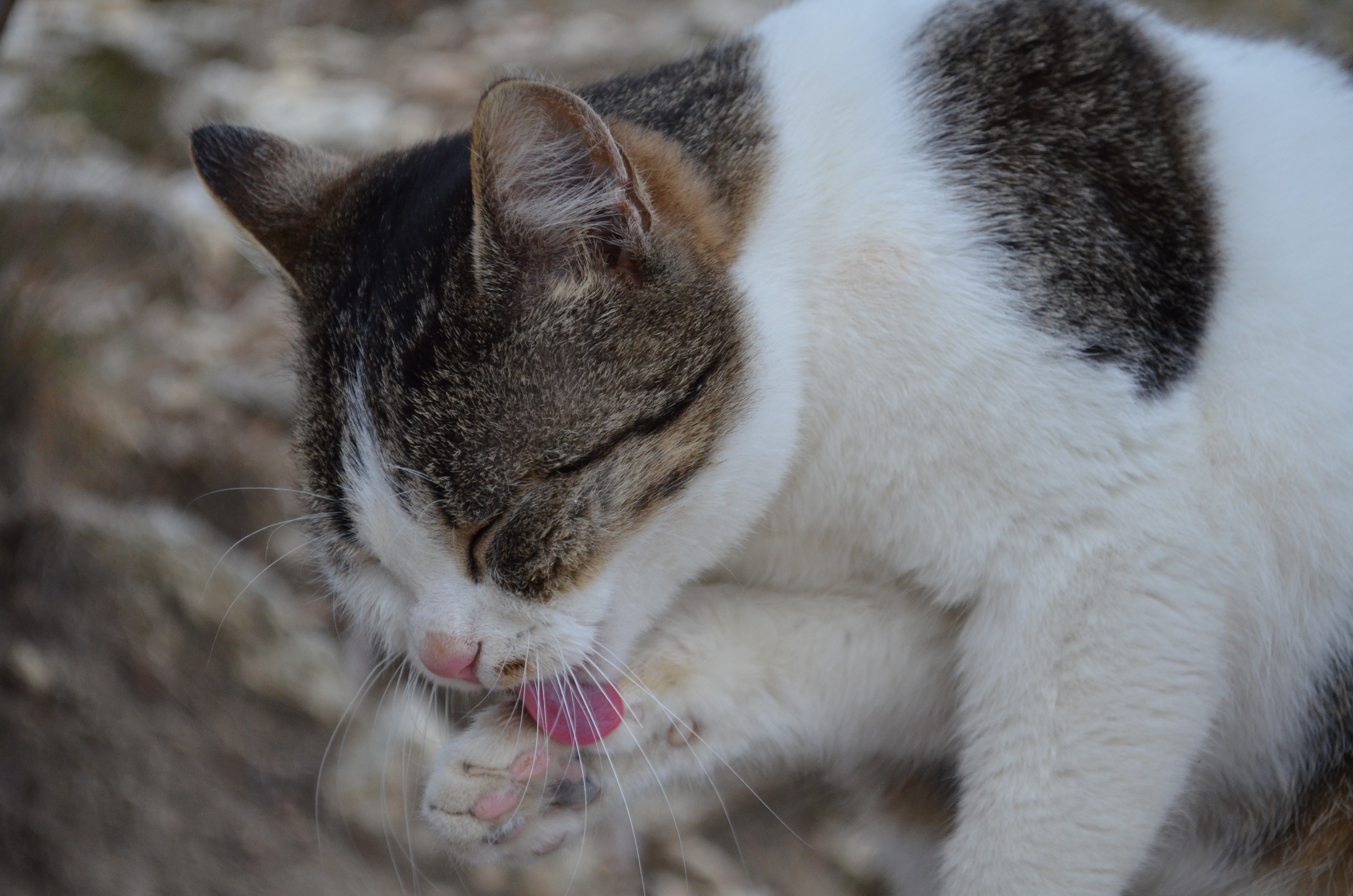 Washing. The procedure for removing dead hair from the wool